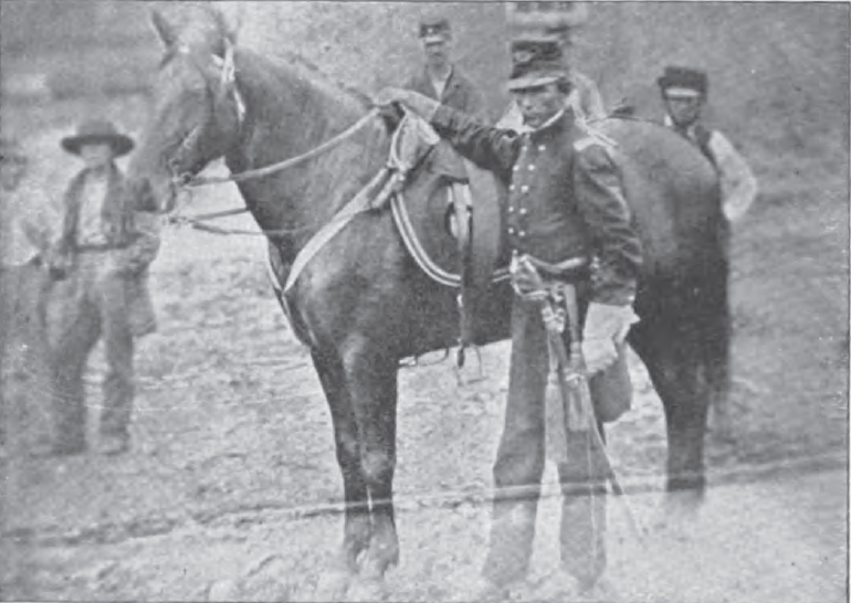 a civil war soldier named William H. Gibson with horse later shot from under him.